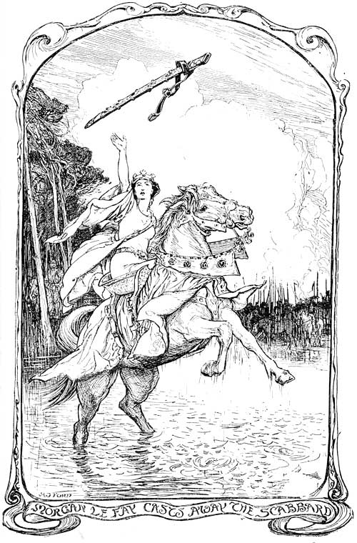 An illustration by Henry Justice Ford from King Arthur: The Tales of the Round Table. Ed. Andrew Lang, New York, Longmans, Green and Co., 1902.